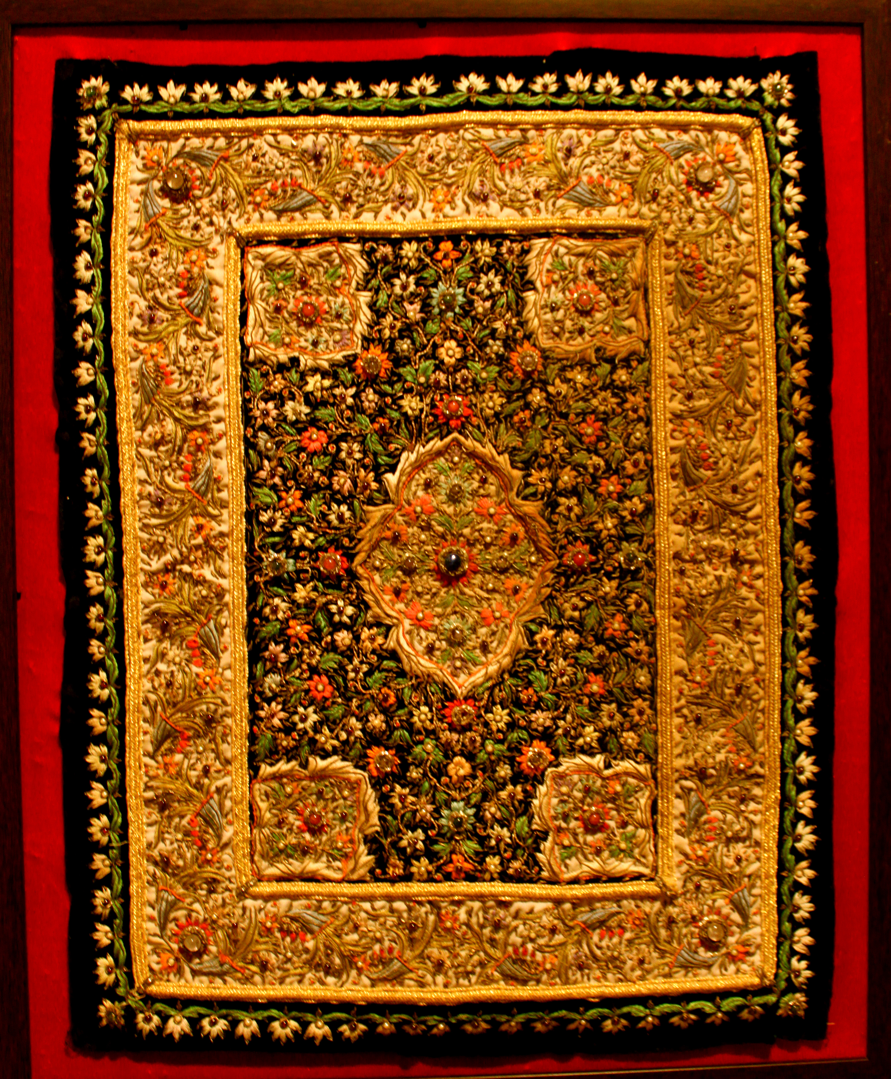 Medieval embriodery from Sheki